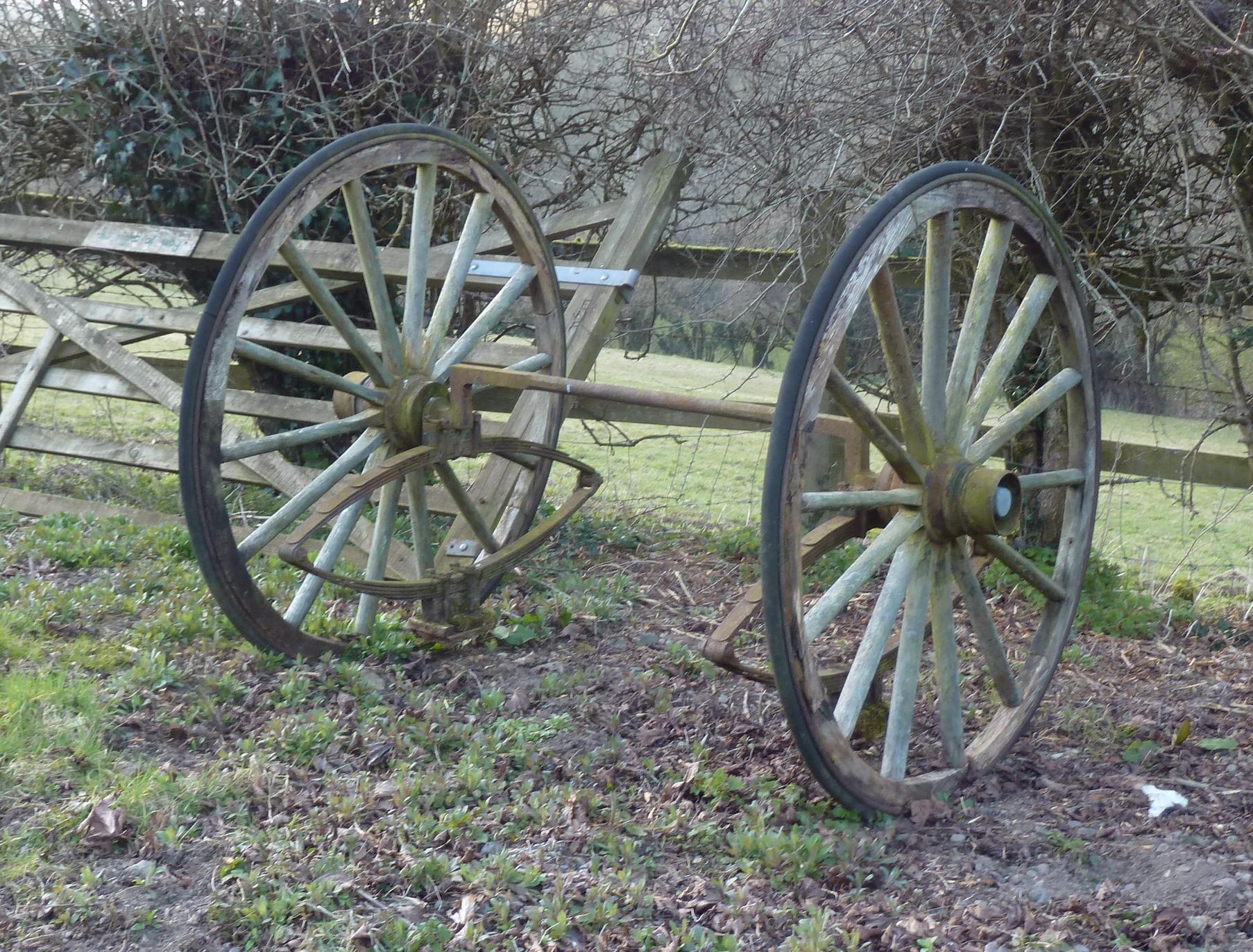 Dropped axle from a derelict cart or float, with full-elliptic springs. Note that owing to the weight of the springs, the axle has turned upside down!